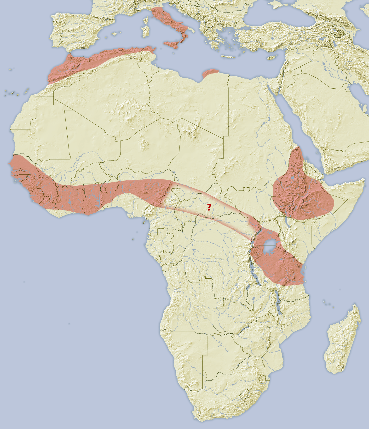 Distribution map of the crested porcupine